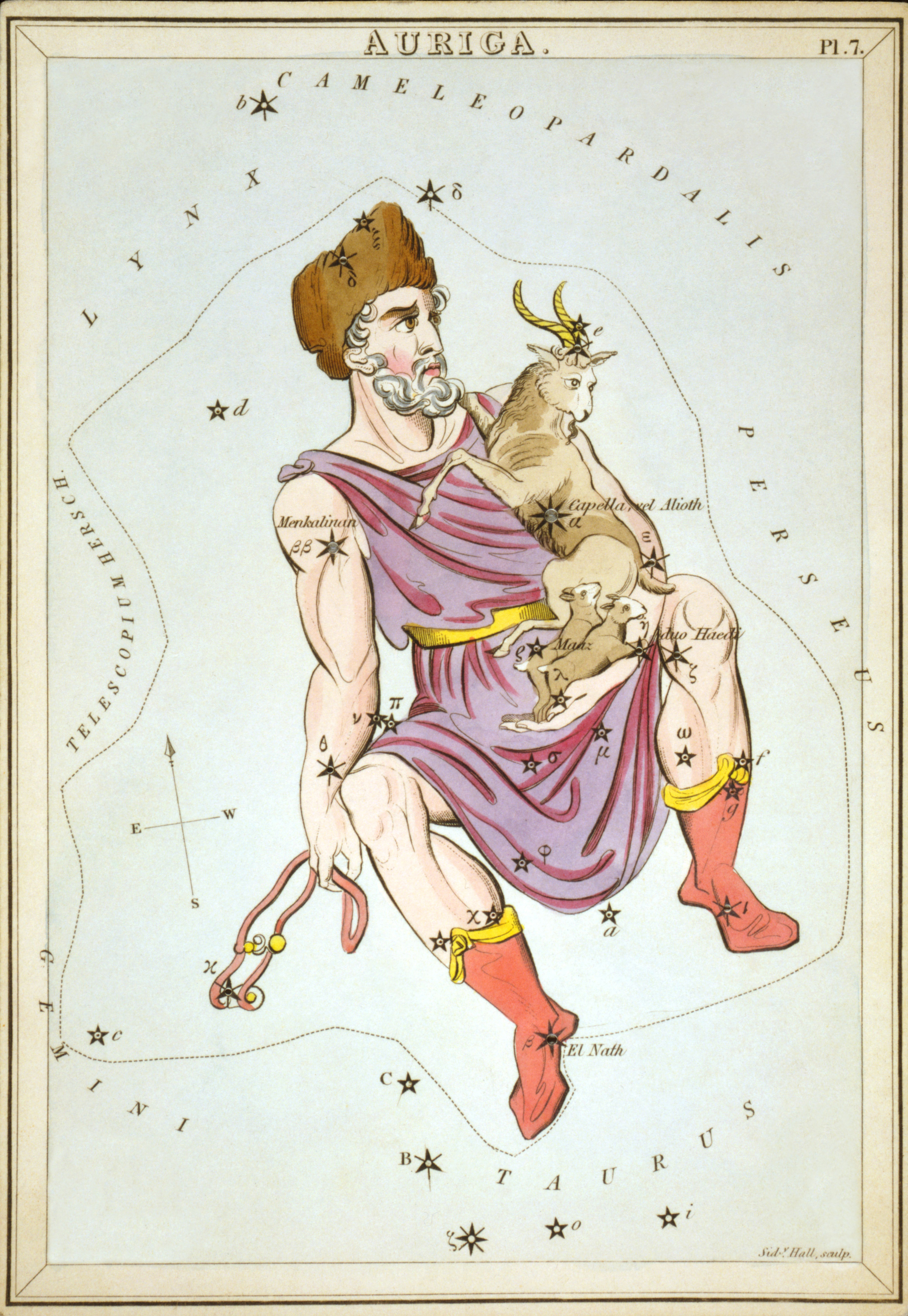 Auriga as depicted in Urania's Mirror, a set of constellation cards published in London c.1825. Astronomical chart showing Auriga the Charioteer holding a ram, two ewes(?), and a bridle forming the constellation.